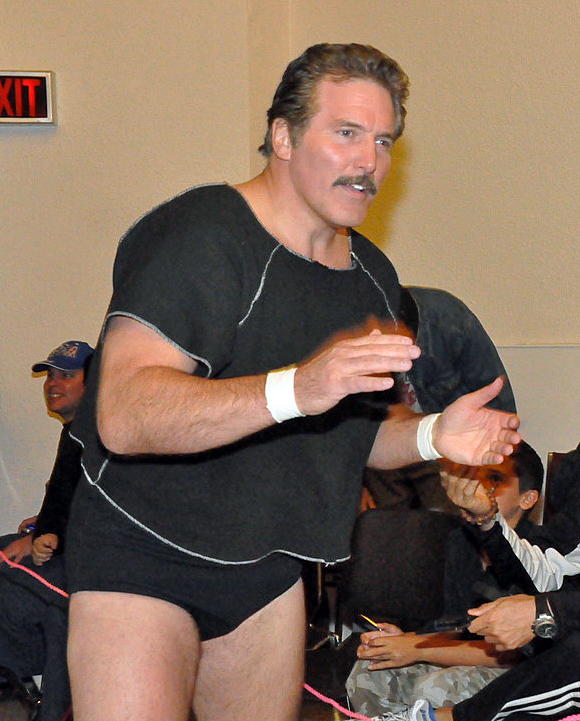 Dan Severn in 2010